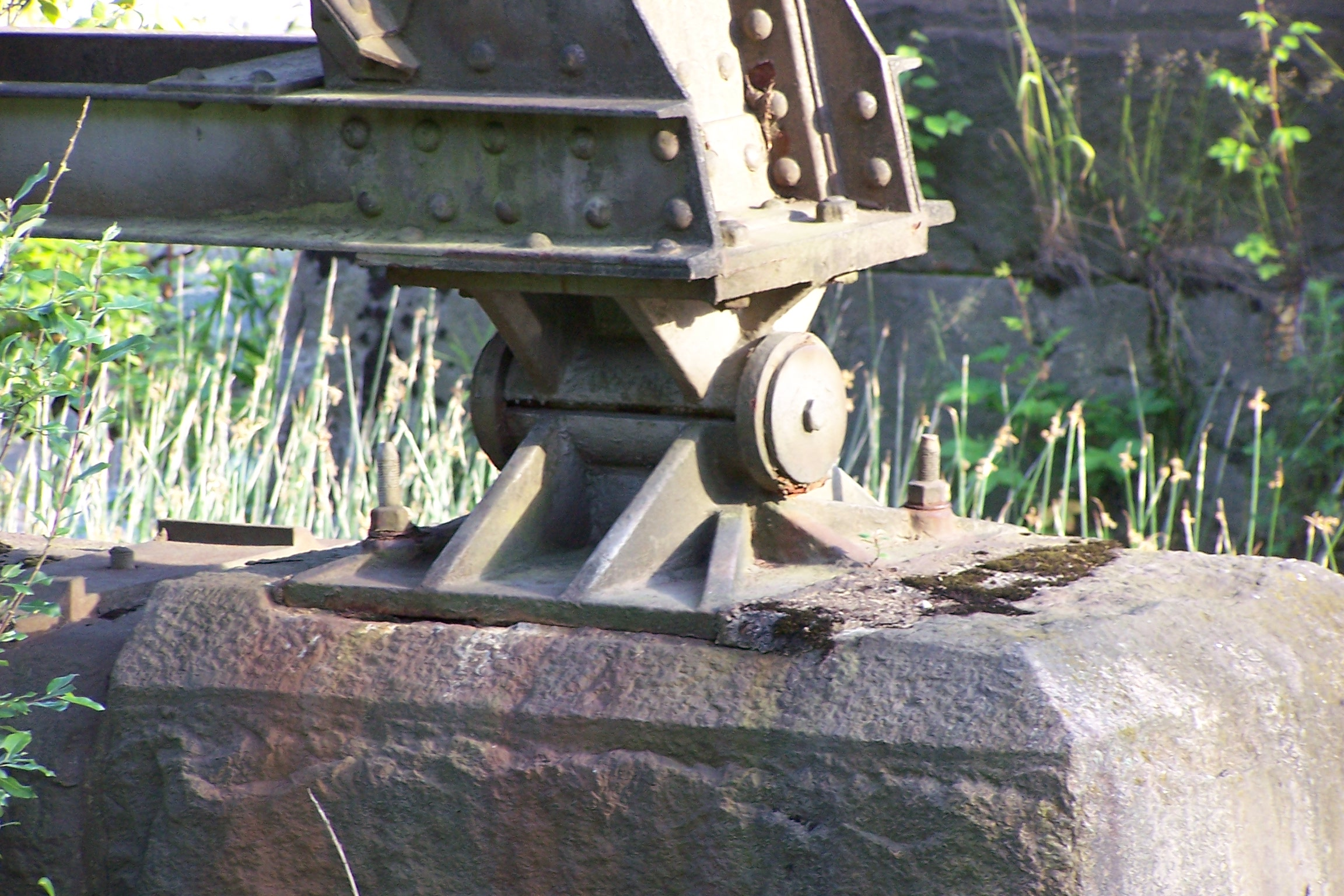 Old railroad bridge in Hølen, detail of base